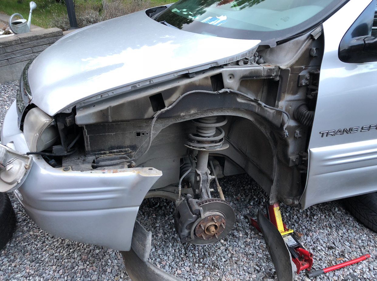 A front left fender removed on a Chrevrolet Trans Sport -99.